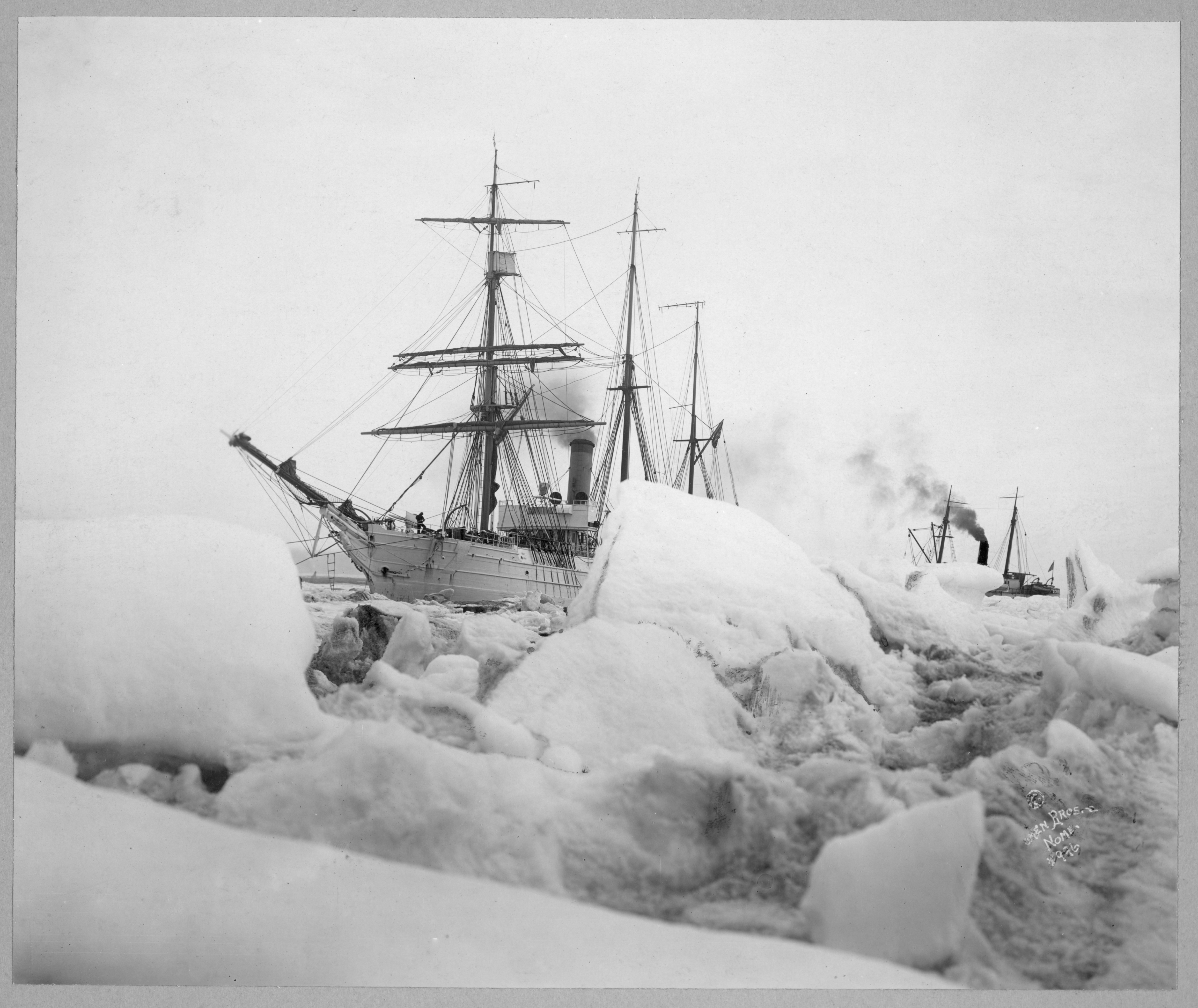 The Byrd expedition ship in heavy pack ice of the South Pole. In the background, a Canadian icebreaker tries to get the expedition ship free. According to latest reports Byrd should be able to start the return journey from the Antarctic.